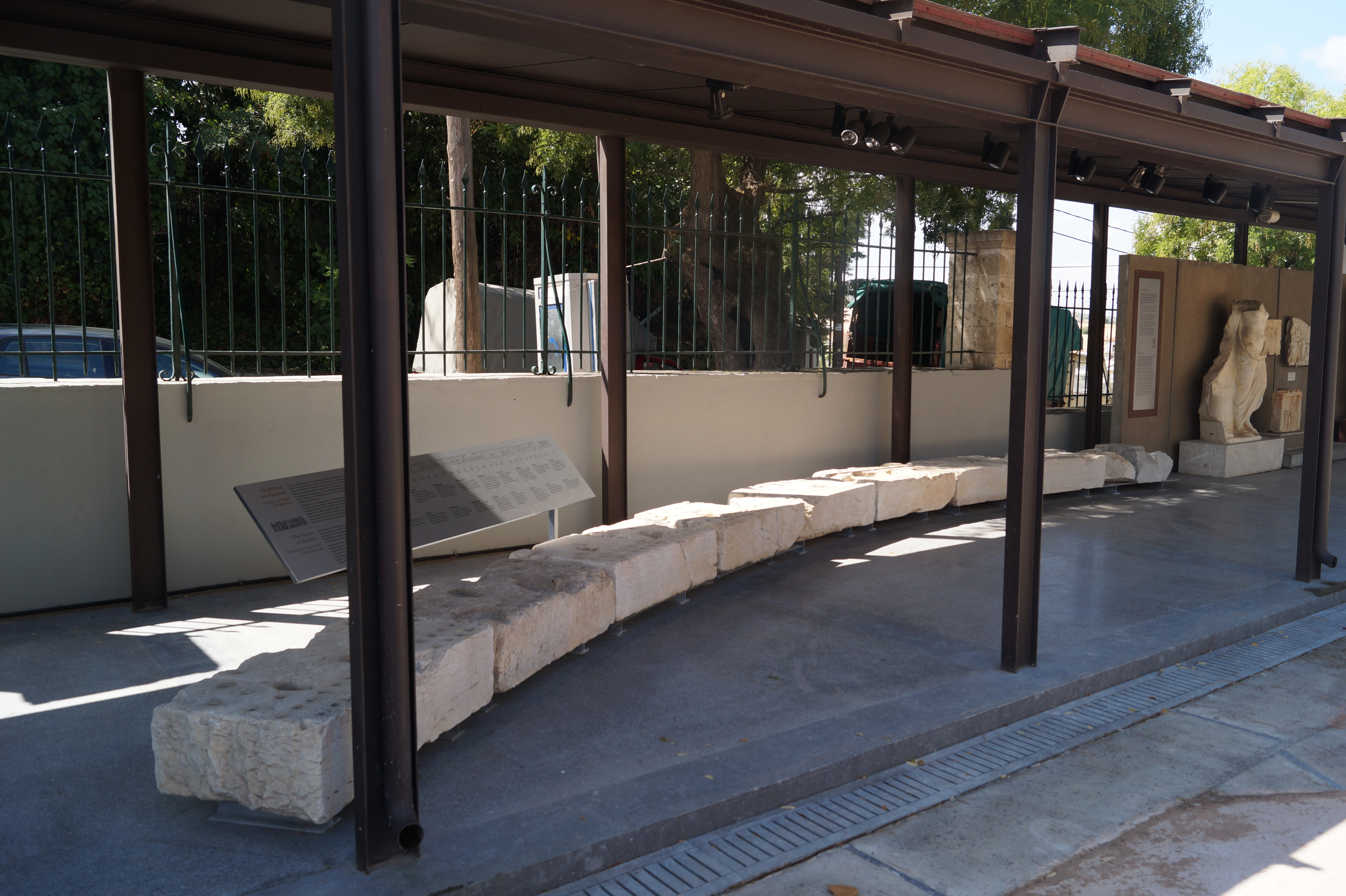 Archaeological Museum of Thebes: Base of the Muses from the Sanctuary of Muses near Thespies. On the base had stand statue of the Muses Polymnia, Thaleia, Terpsichore, Melpomene, Kalliope, Kleio, Ourania, Erato and Euterpe.